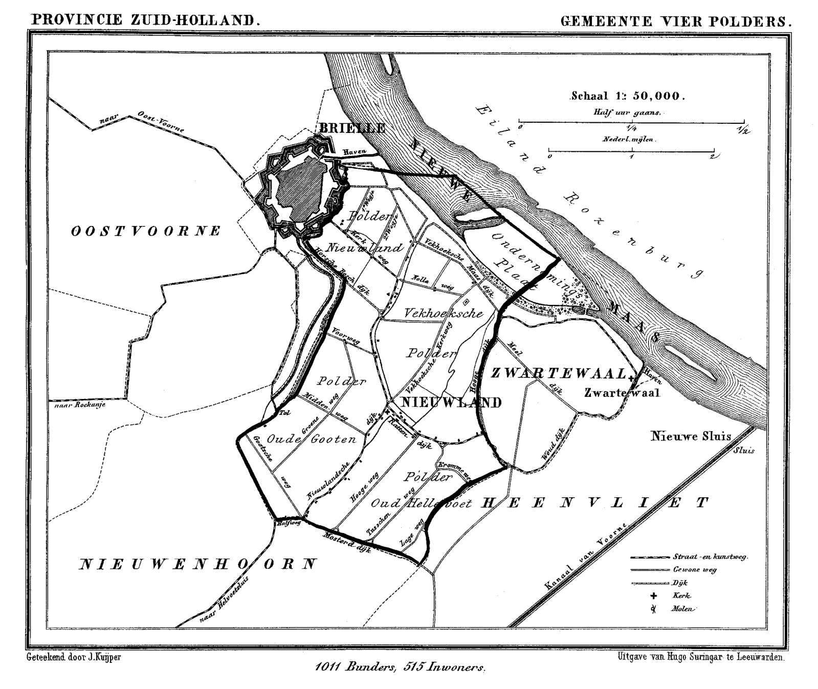 Historic map of Vierpolders (now part of municipality Brielle), South Holland, the Netherlands